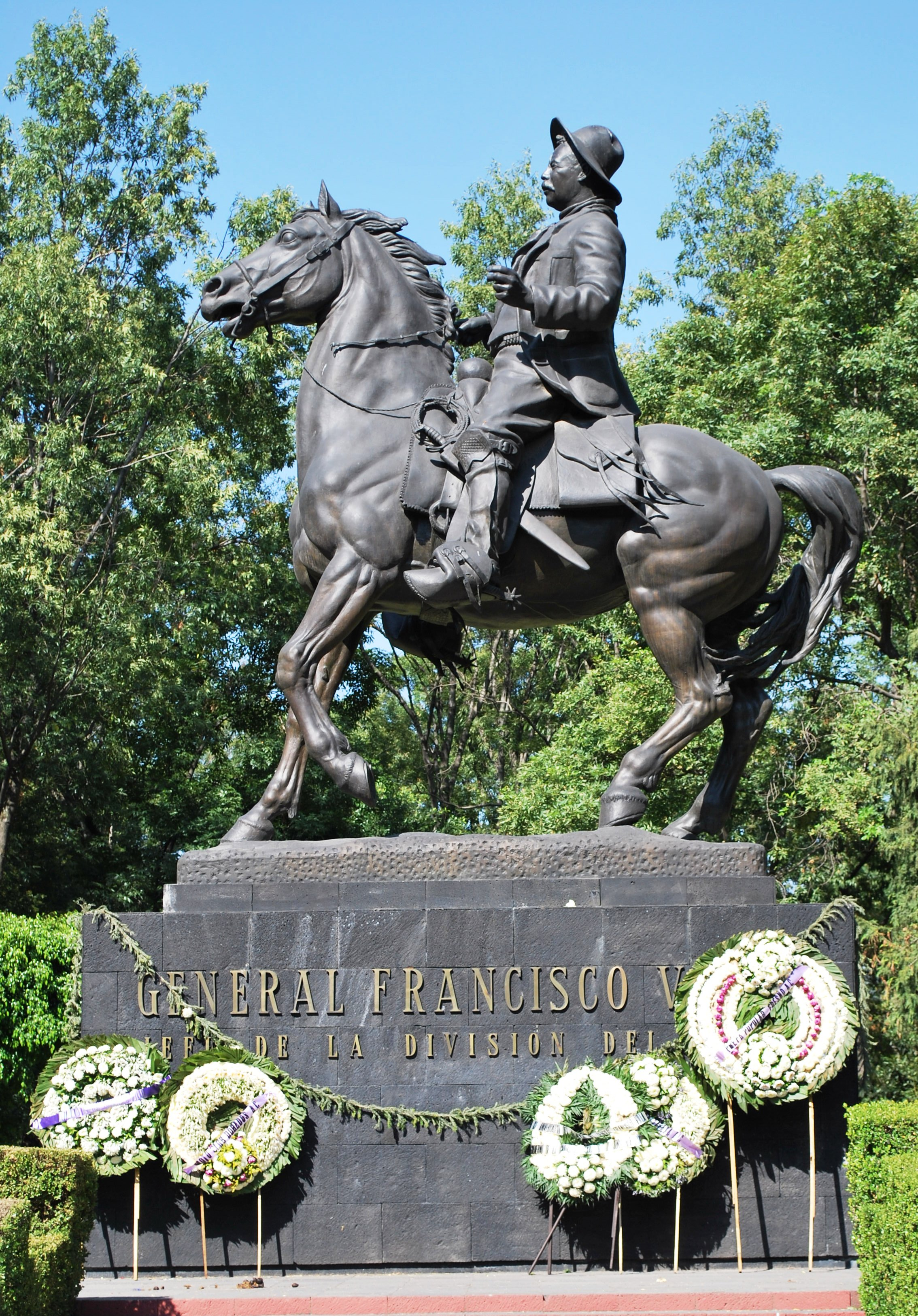 Equestrian statue of Pancho Villa in Los Venados Park in the Benito Juarez borough in Mexico City